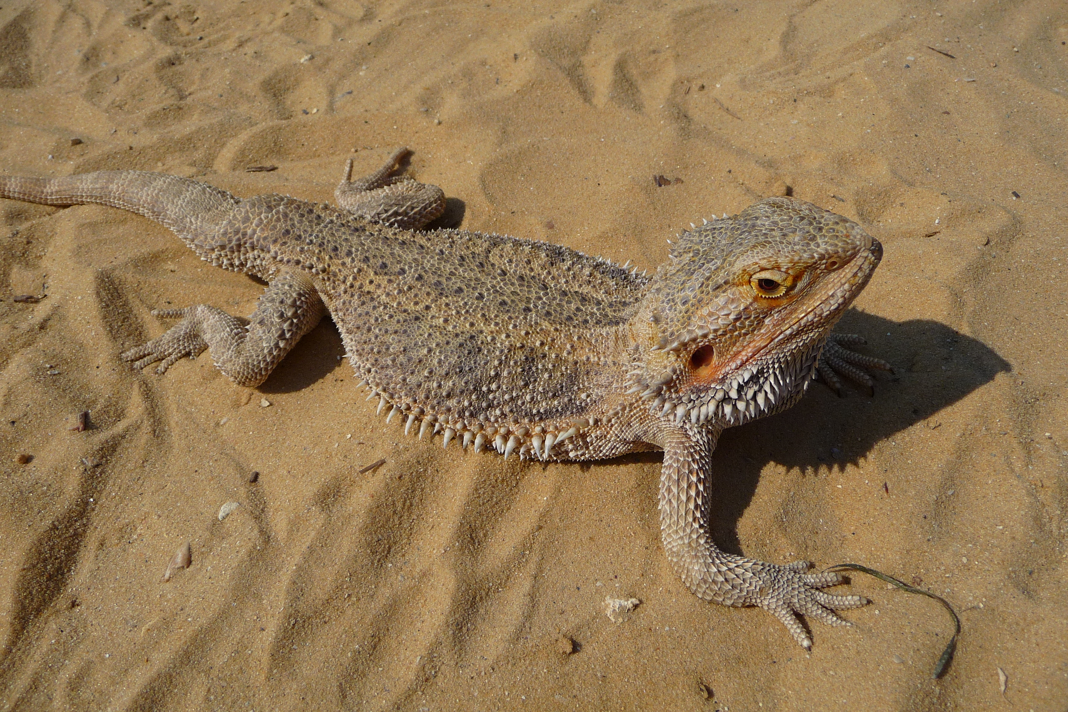 Central Bearded Dragon close-up. Pogona vitticeps (Ahl, 1926)